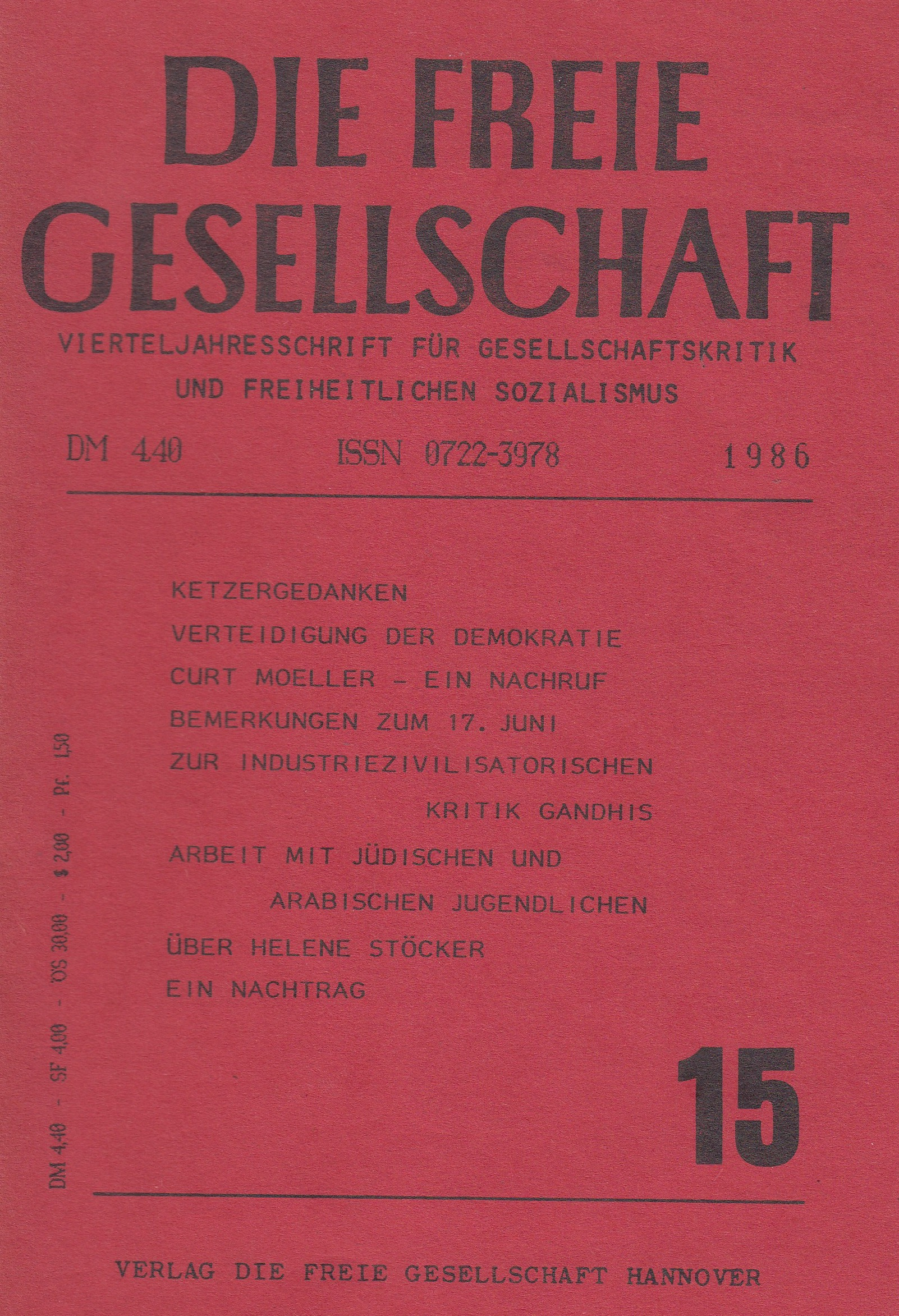 libertarian socialist publication in Germany